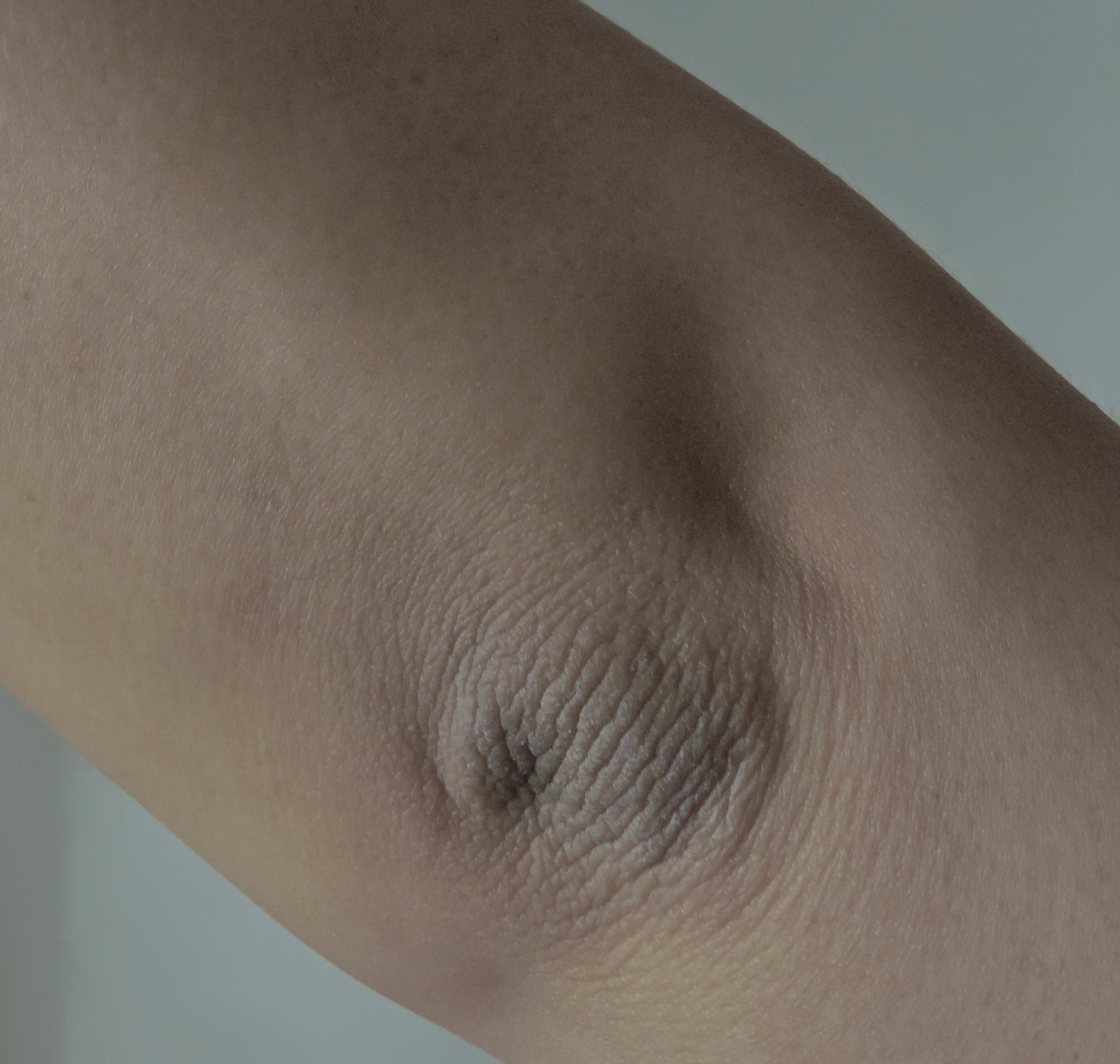 Acanthosis nigricans on the elbow skin.